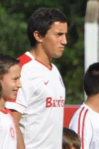 DSC_0193 (Copy)